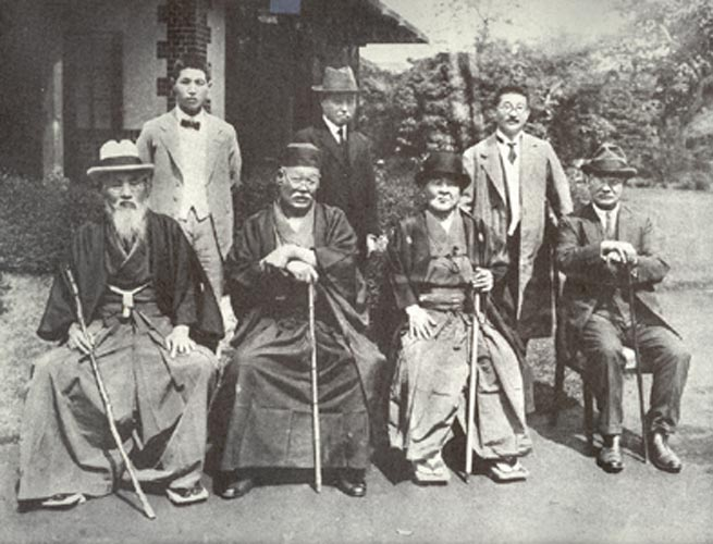 The fathers of Kokushikan: Front row, from left, nationalist Mitsuru Tōyama, Rep. Utarō Noda, financier Eiichi Shibusawa, author Sohō Tokutomi; back row far right is the founder of Kokushikan, Tokujirō Shibata.